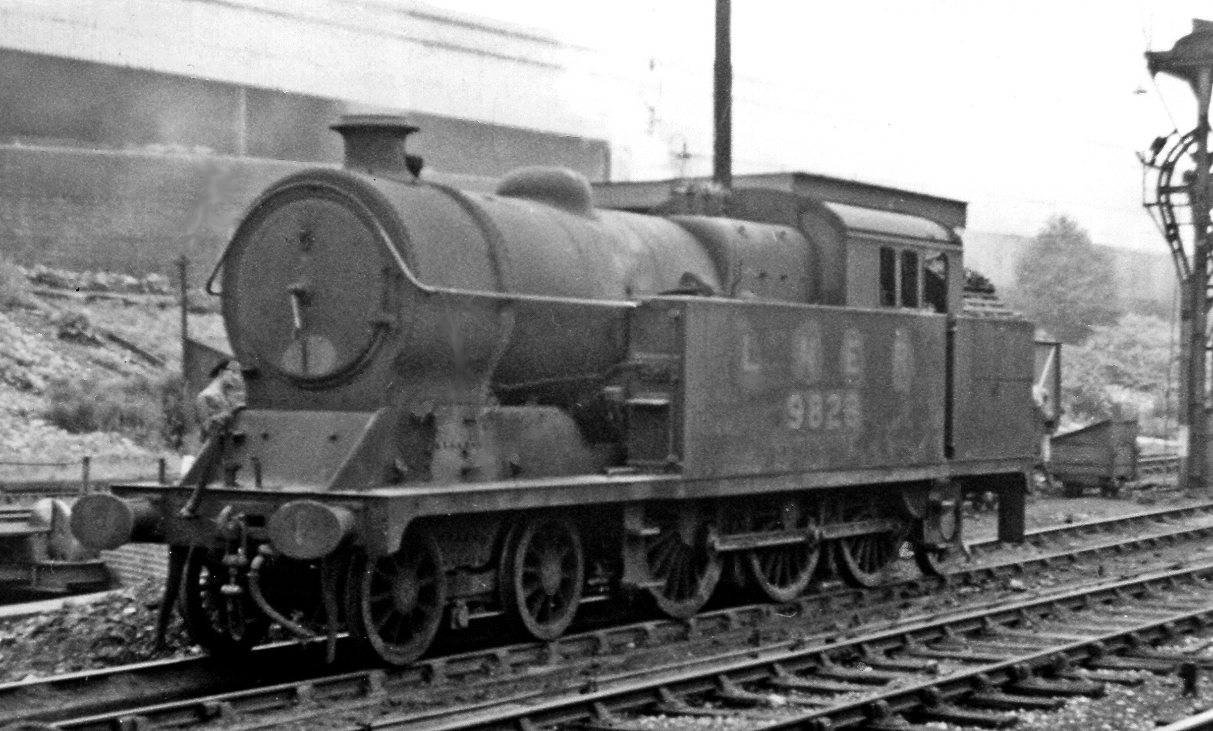 4-6-2T locomotive for suburban services outside Marylebone Station. View northward in yard outside London Marylebone, terminus of the ex-Great Central lines. Robinson Class A5/1 4-6-2T No. 9828 was one of a fleet of engines employed on the suburban servies from Marylebone to High Wycombe, Princes Risborough and Aylesbury in the 1920's - 1950's. The structure on the right is a mechanical ash-plant and on the left is a turntable, provided to save the engines on duty returning out to their home Depot at Neasden.